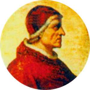 Portait of Pope Clement VI in the Basilica of Saint Paul Outside the Walls, Rome